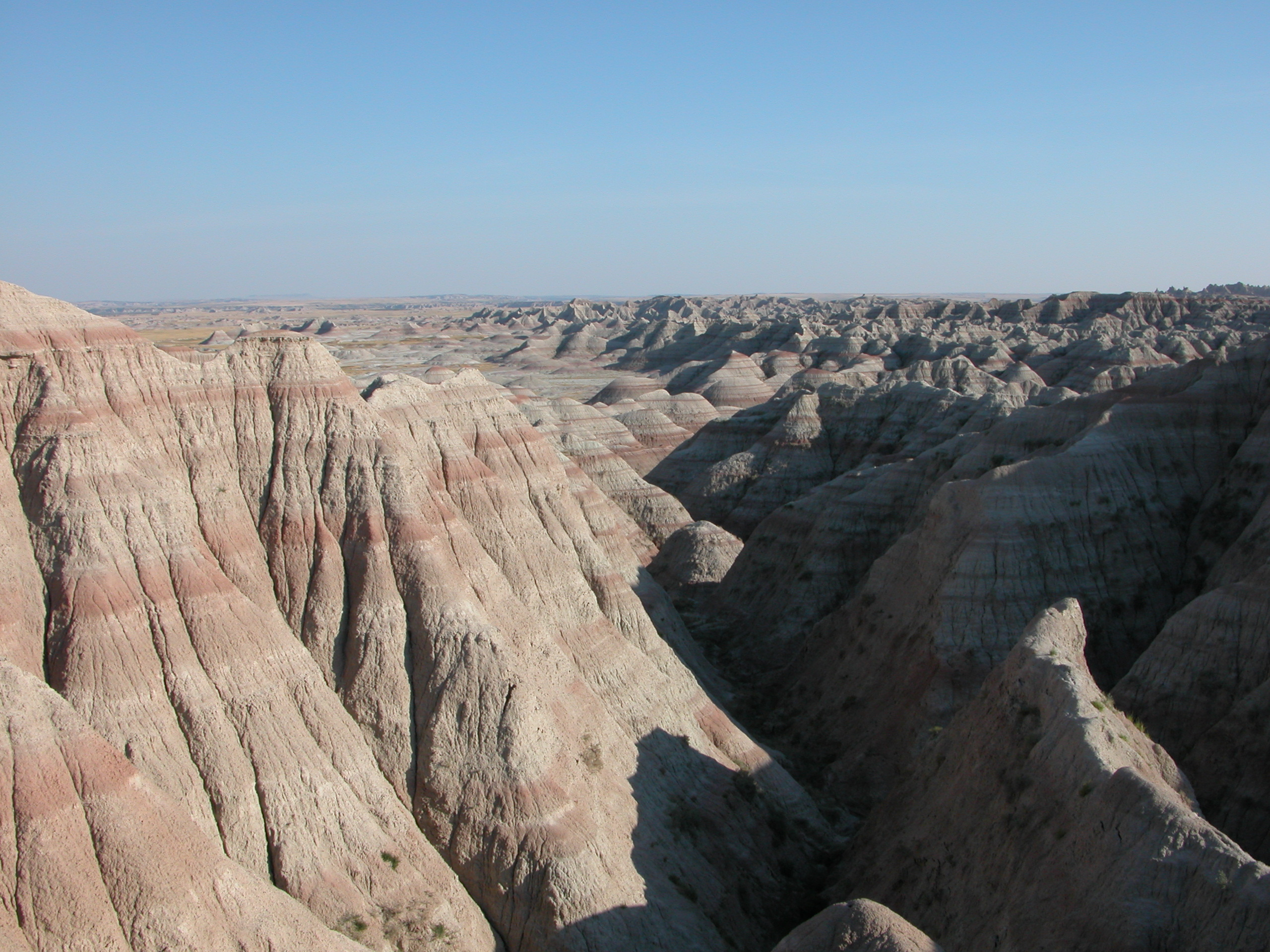 Badlands Nation Park from a scenic overlook.